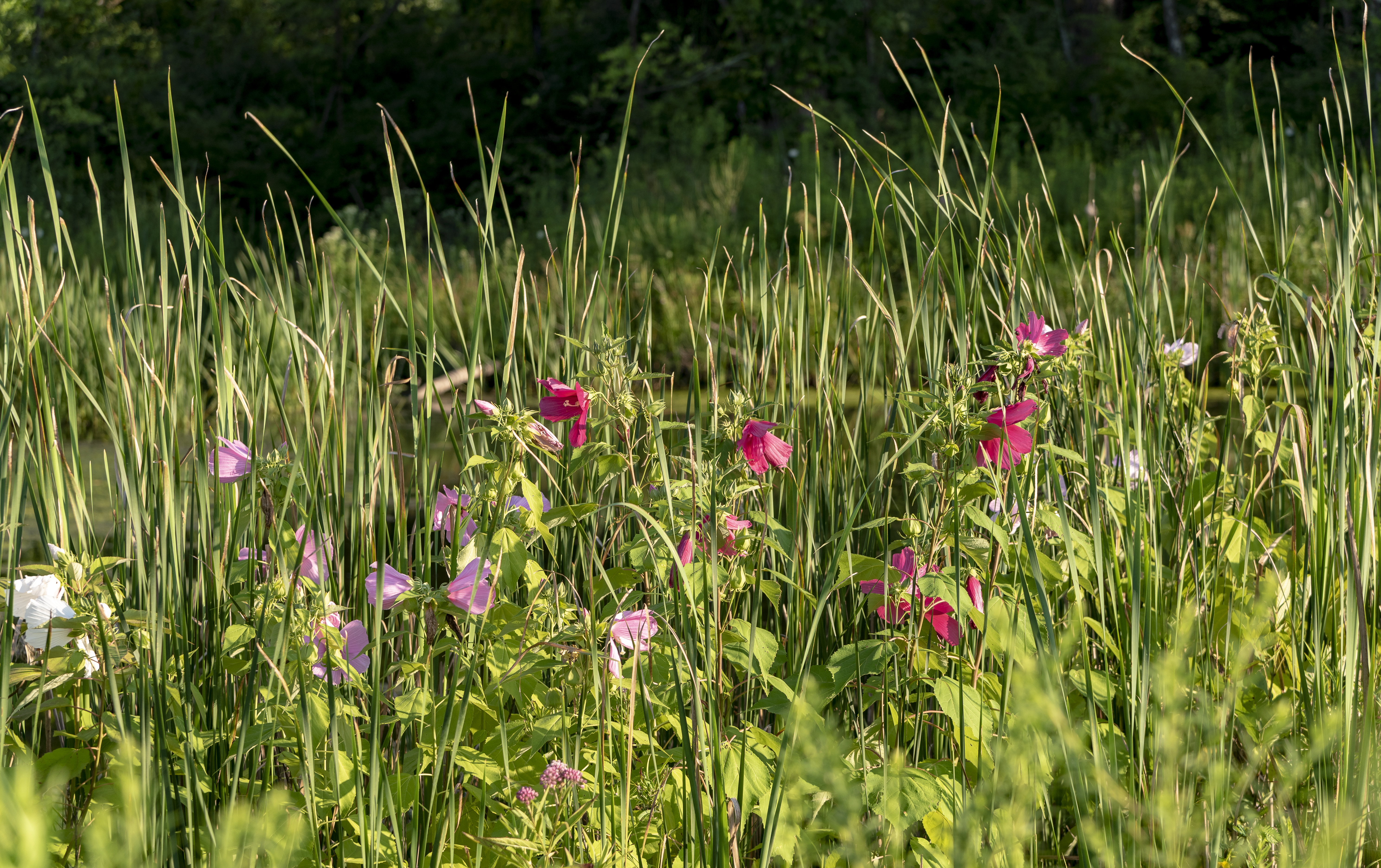 Hibiscus moscheutos in the wetlands restoration project found at Gahanna Woods Park in Gahanna, Ohio. Photo was taken in the evening in late July.